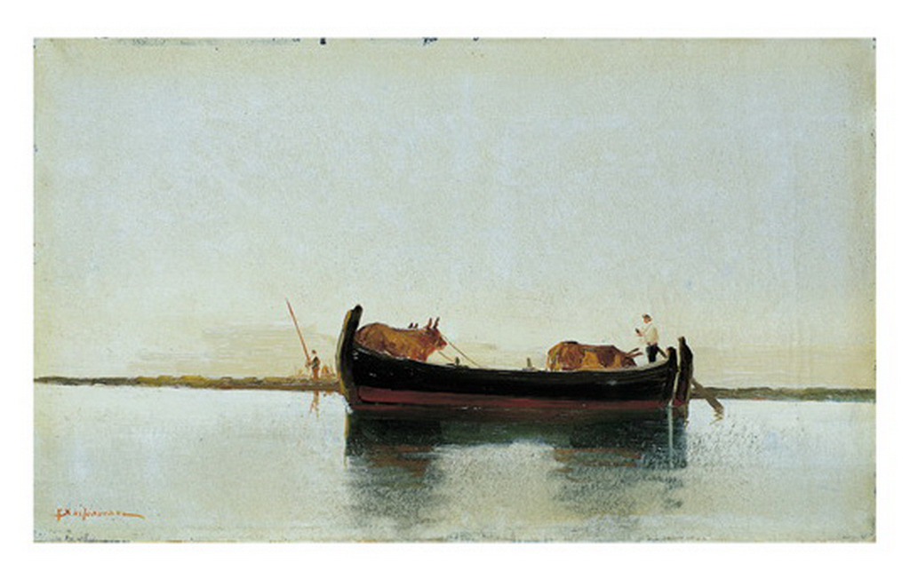 Boat with animals